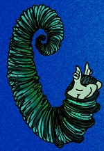 Reconstruction of the heteromorph ammonite, Annuloceras summersi, of Aptian California